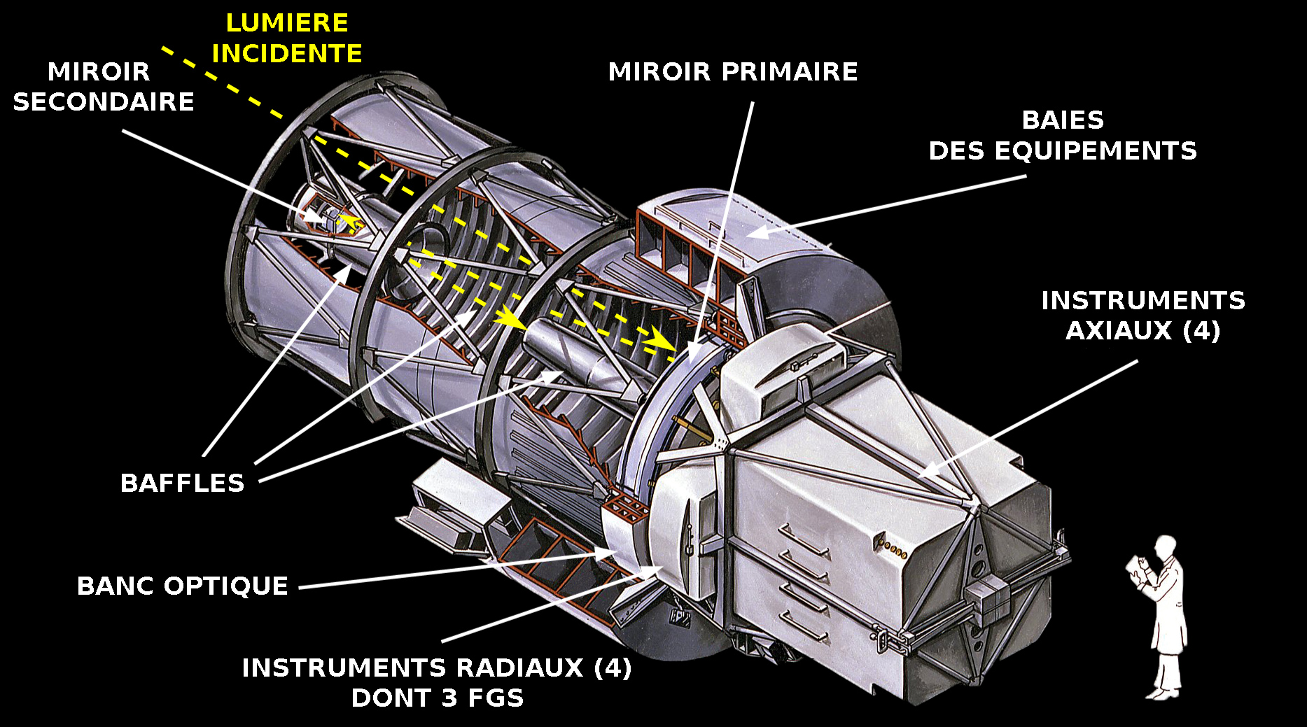 OTA components and light travel (french labels).